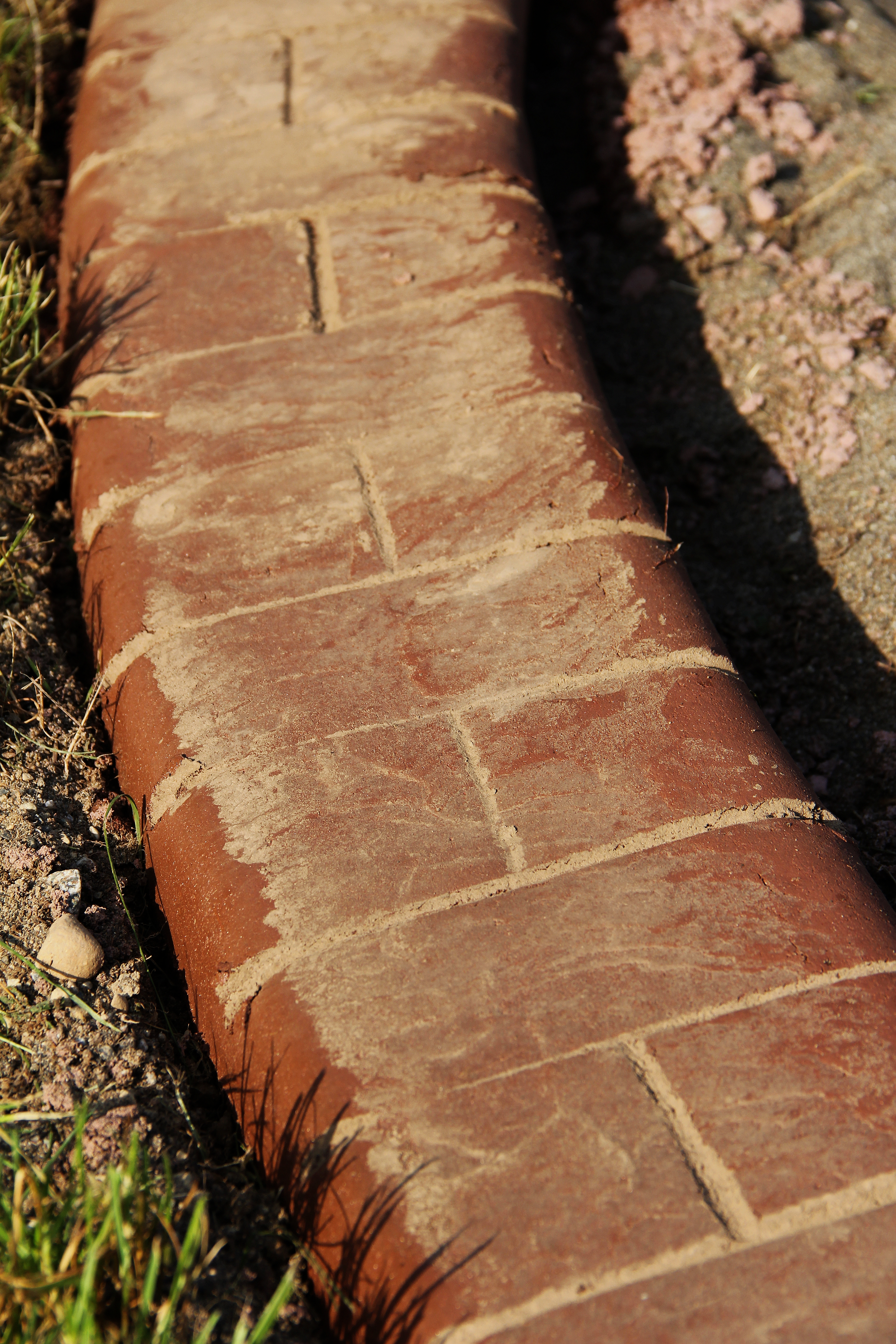 Curbing in the making